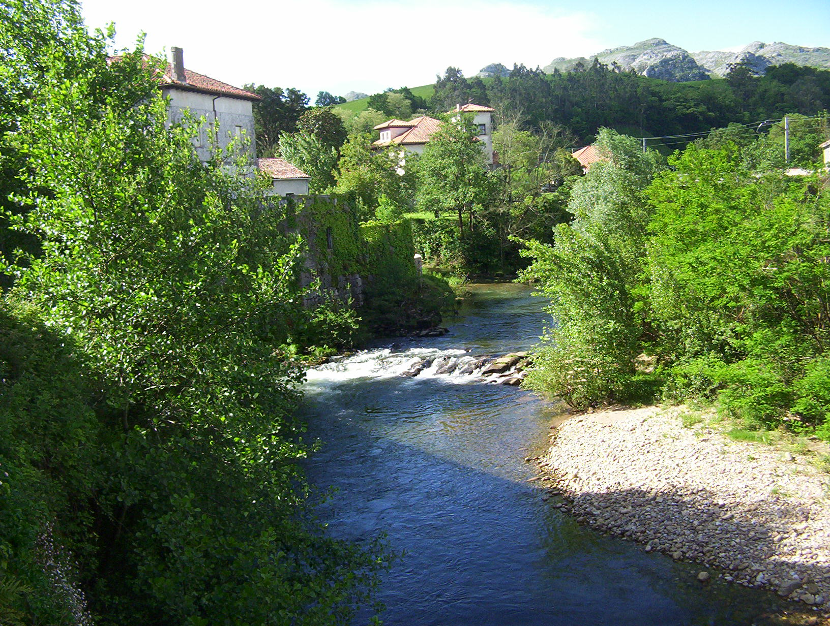 Miera River in La Cavada (Cantabria, Spain).